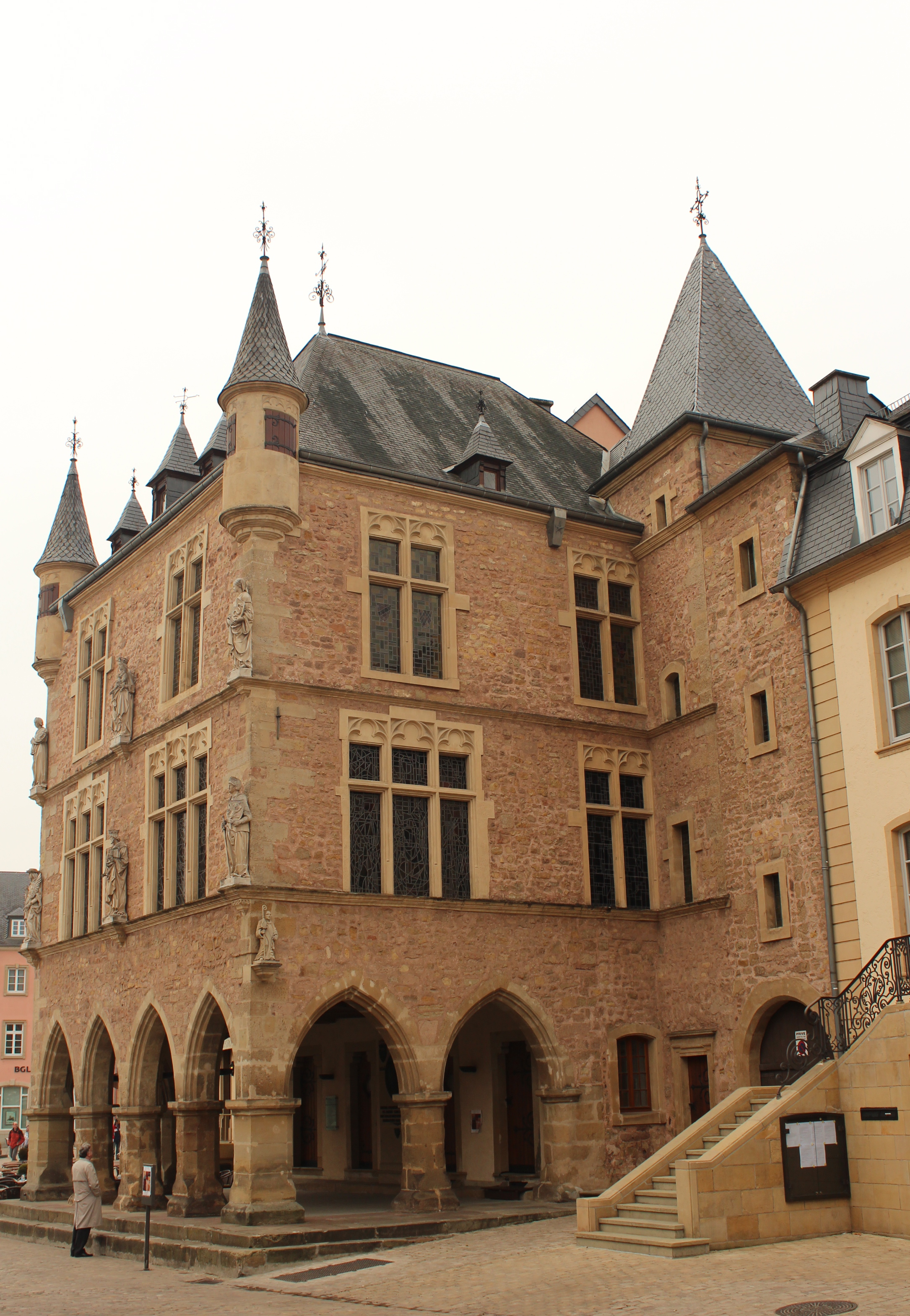 Dënzelt (germanised: 'Dingstuhl'), former seat of judiciary in Echternach, Luxembourg. Cultural heritage monument.